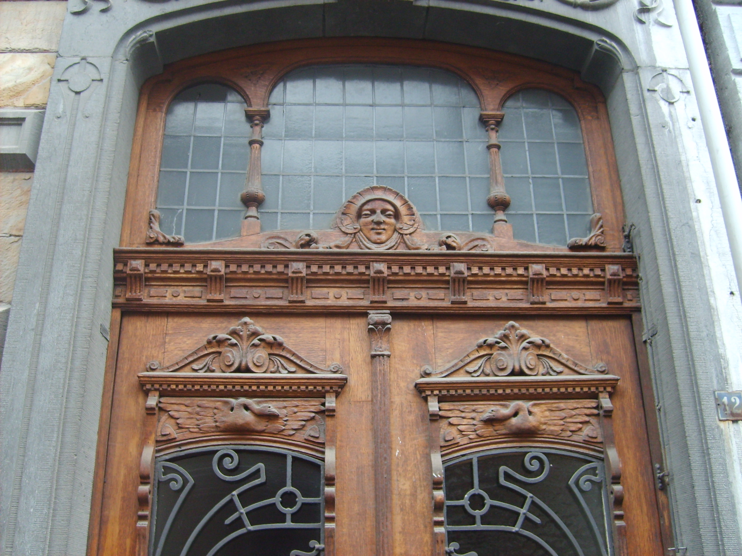 A carved door of Hôtel Verlaine at rue Grandgagnage 12 in Liège, Wallonia, Belgium. Constructed in 1910, the hotel was designed by the Belgian architect Maurice Devignée in an Art Nouveau style.